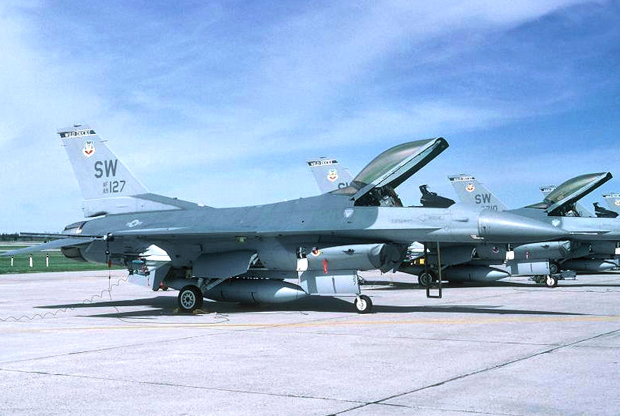 USAF F-16C block 40 #89-2127 of the displaced 309th FS from the 31st FW, Homestead AFB, which was evacuated to Shaw in August 1992. Temporarily reassigned to the 363d FW, the tail codes were changed to "SW" when Homestead was destroyed by Hurricane Andrew and the squadron was reassigned to Shaw on a semi-permanent basis.